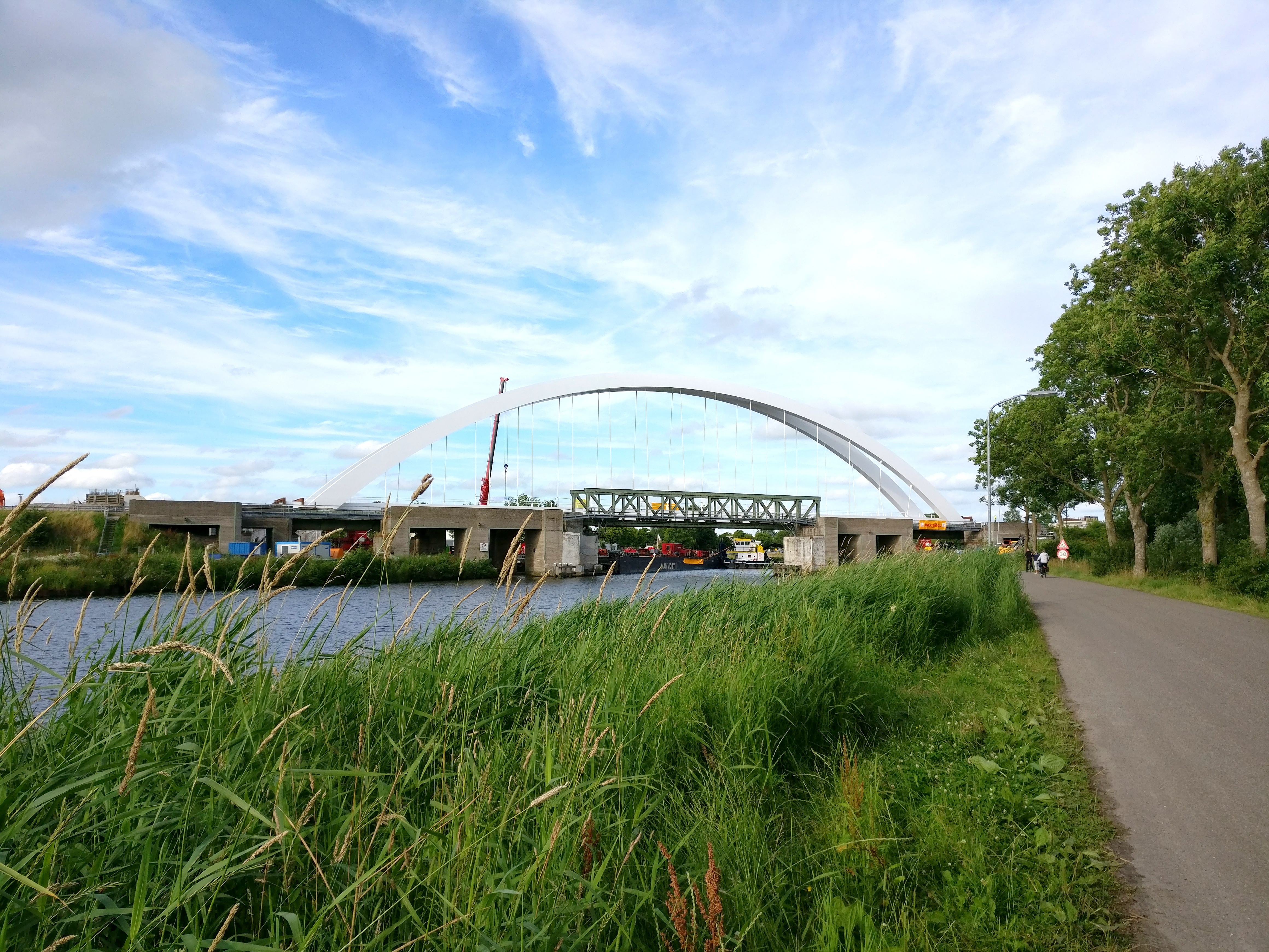 The new railway bridge with the old one, on the day of the placement.